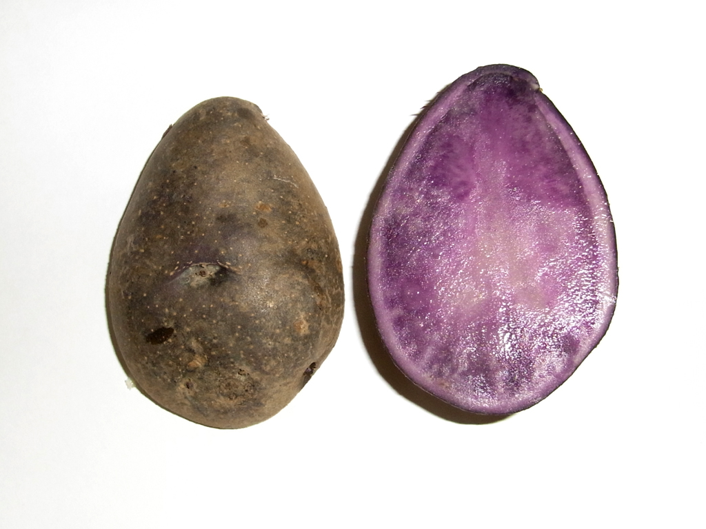 Shadow queen.